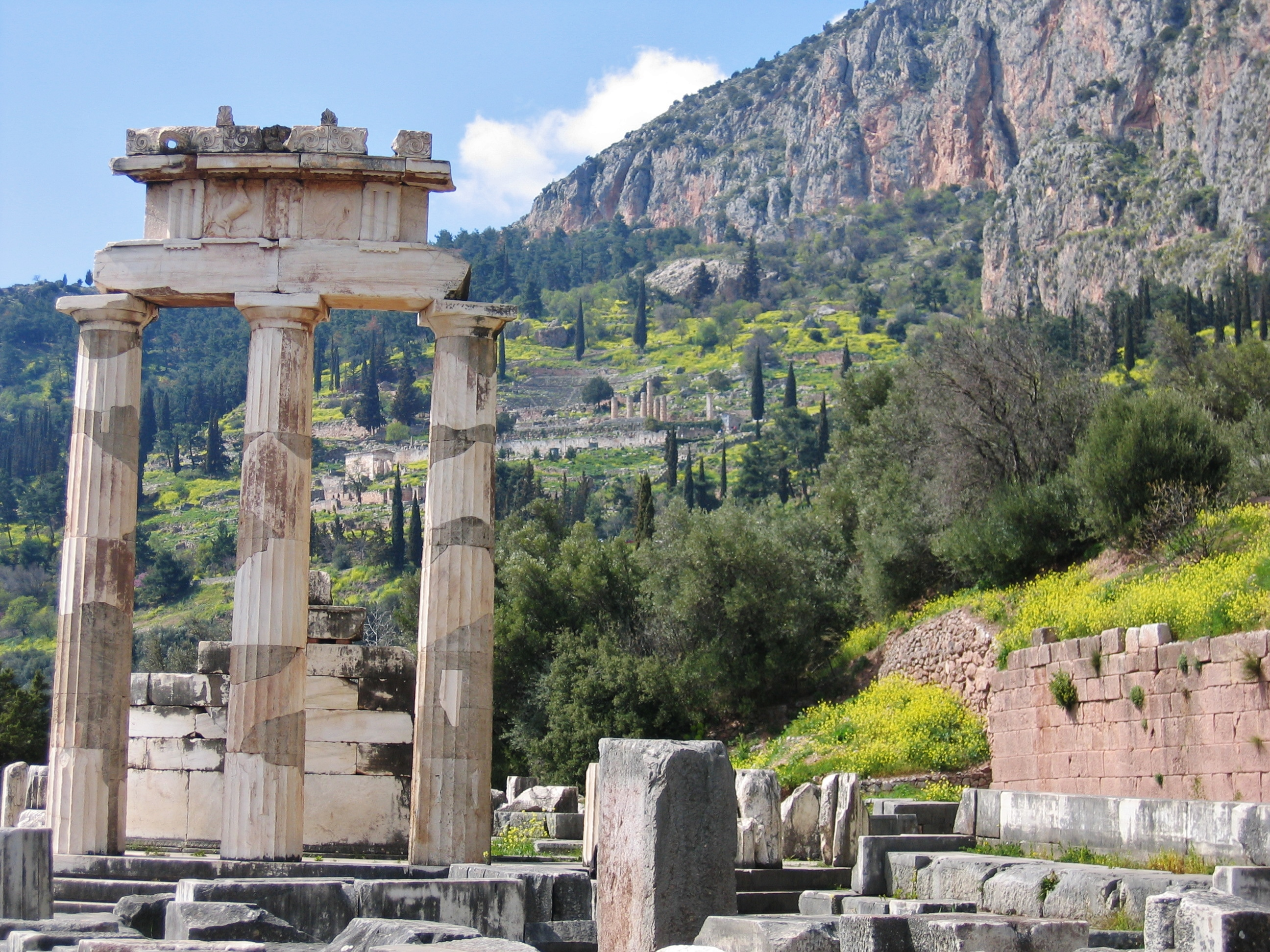 The sanctuary of Apollo in Delphi